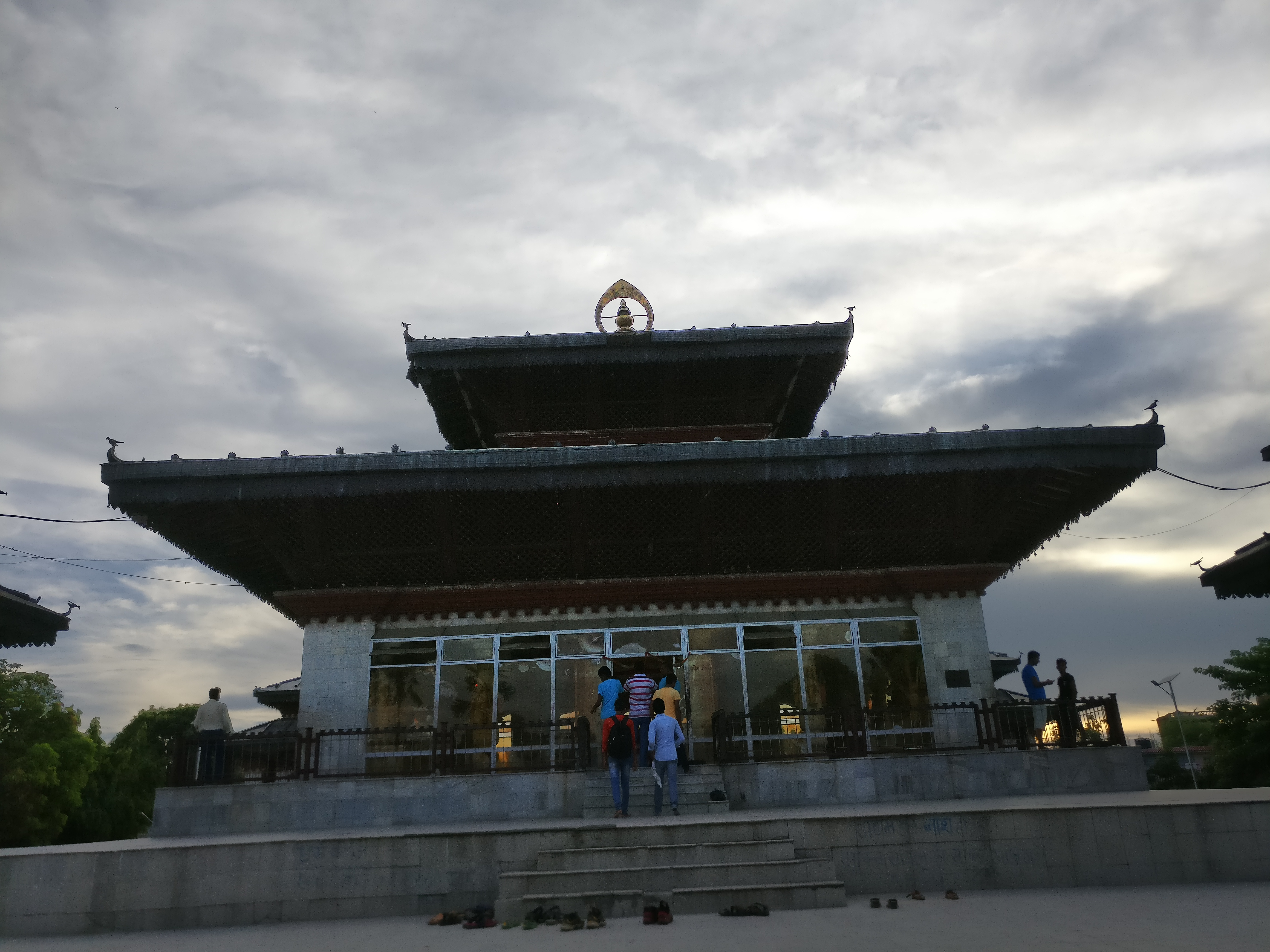 Ram-Sita Marriage place